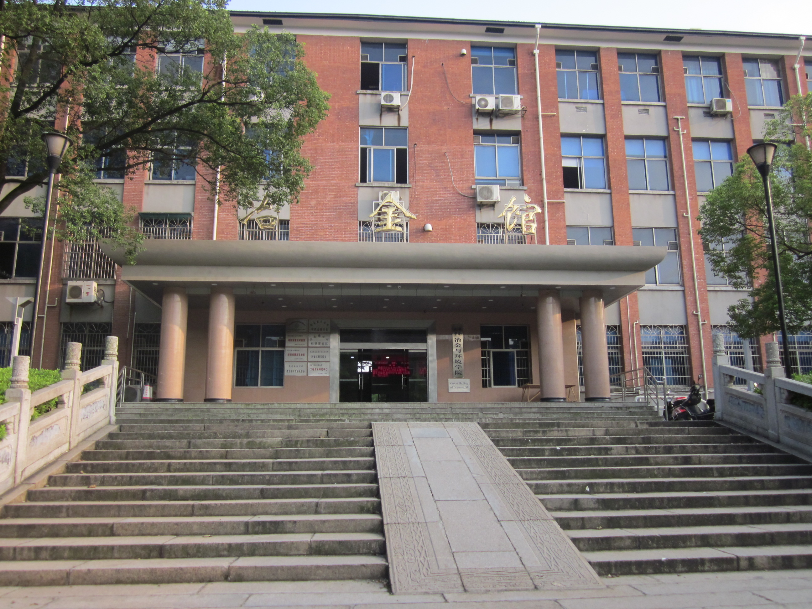 Central South University (CSU) located in Changsha, a historic and cultural city in Hunan province, central south of the People's Republic of China.